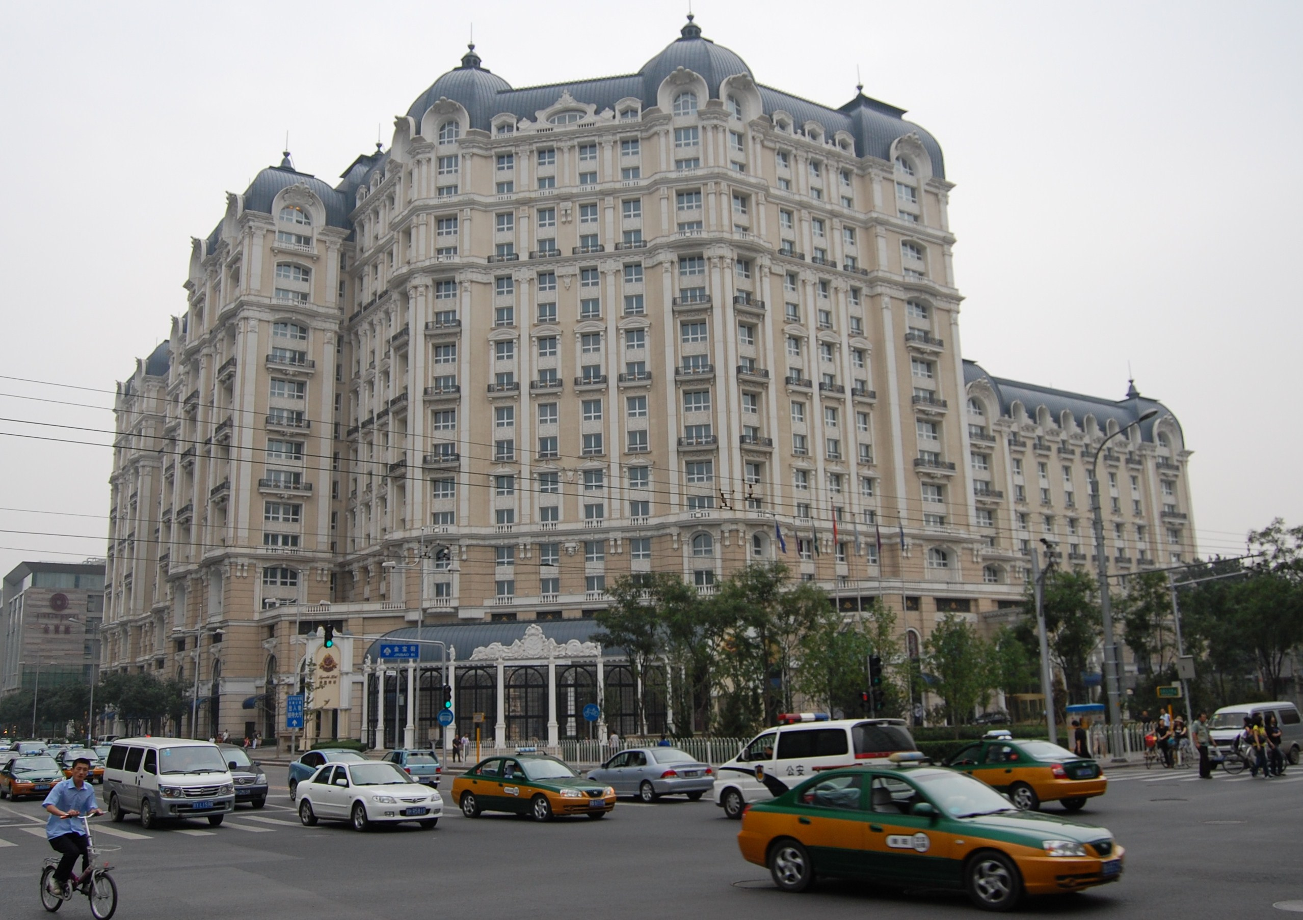 Legendale Hotel Beijing (S: 北京励骏酒店, T: 北京勵駿酒店, P: Běijīng Lìjùn Jiǔdiàn), opened 2008 - 90-92 Jinbao Street, Dongcheng District Beijing, P.R.China 100005